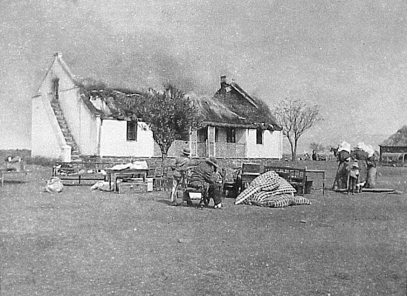 Scorched earth tactics by the British Army during the Second Anglo-Boer War.